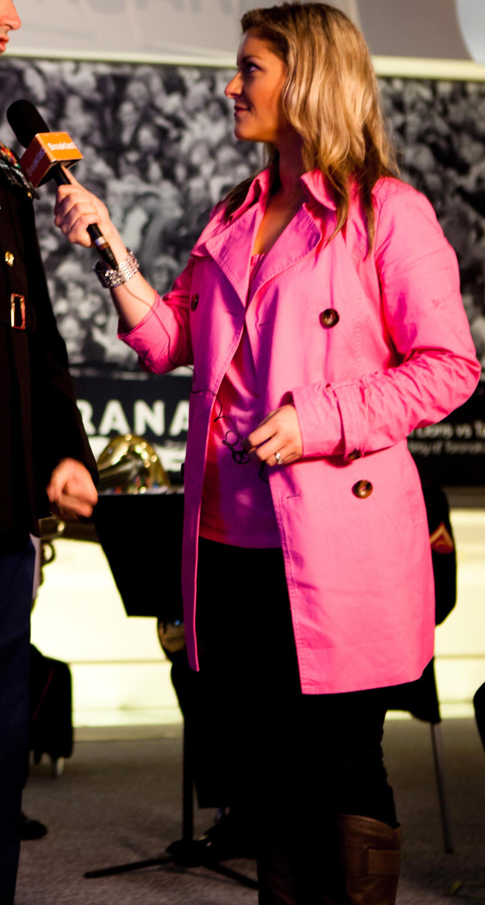 CWO3 Michael J. Smith, officer-in-charge, U.S. Marine Corps Forces, Pacific Band, answers questions for an interview with Toni Street, a reporter for Breakfast TVNZ News, in New Plymouth, New Zealand on Sept. 10. The show was part of the celebration commemorating the 70th anniversary of the Marines landing in Wellington in 1942. (Official USMC photo by Lance Cpl. Isis M. Ramirez/released)